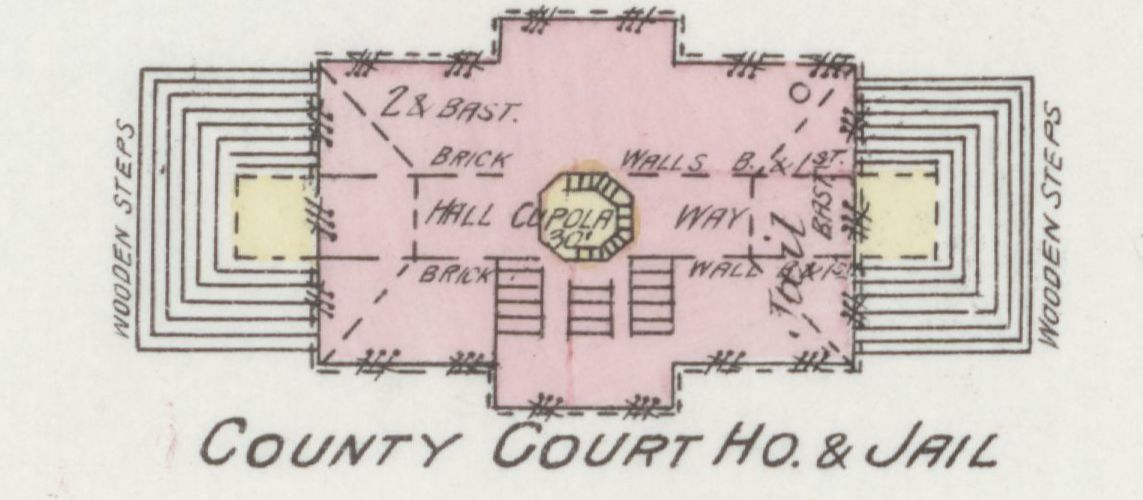 Jan 1887. 10 Sheet(s).